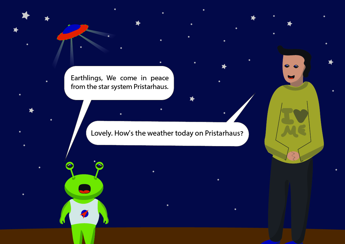 There can be huge differences between people. Sometimes they have to talk, and then they come up with boring topics that don't interest any of them like old peace agreements, the weather and more.